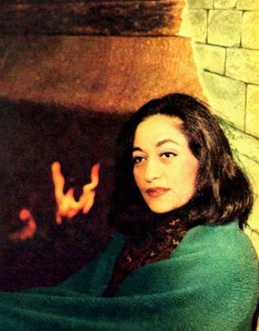 Persian singer, Marziyeh